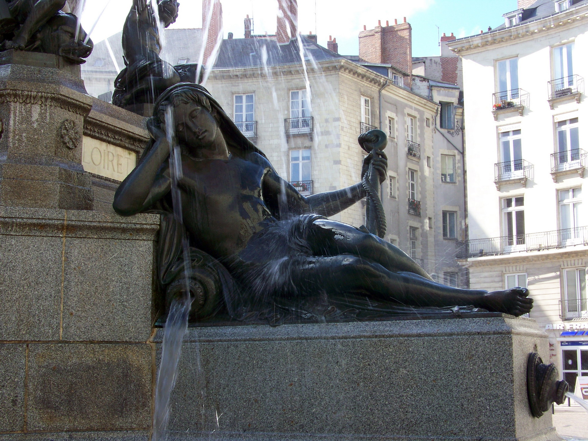 Allegorical statue of the Loiret river on the fountain of the Place Royale in Nantes. Architect of the place: Mathurin Crucy (1788). Fountain by Daniel Ducommun de Locle, Guillaume Grootaërs and Simon Voruz (1865).